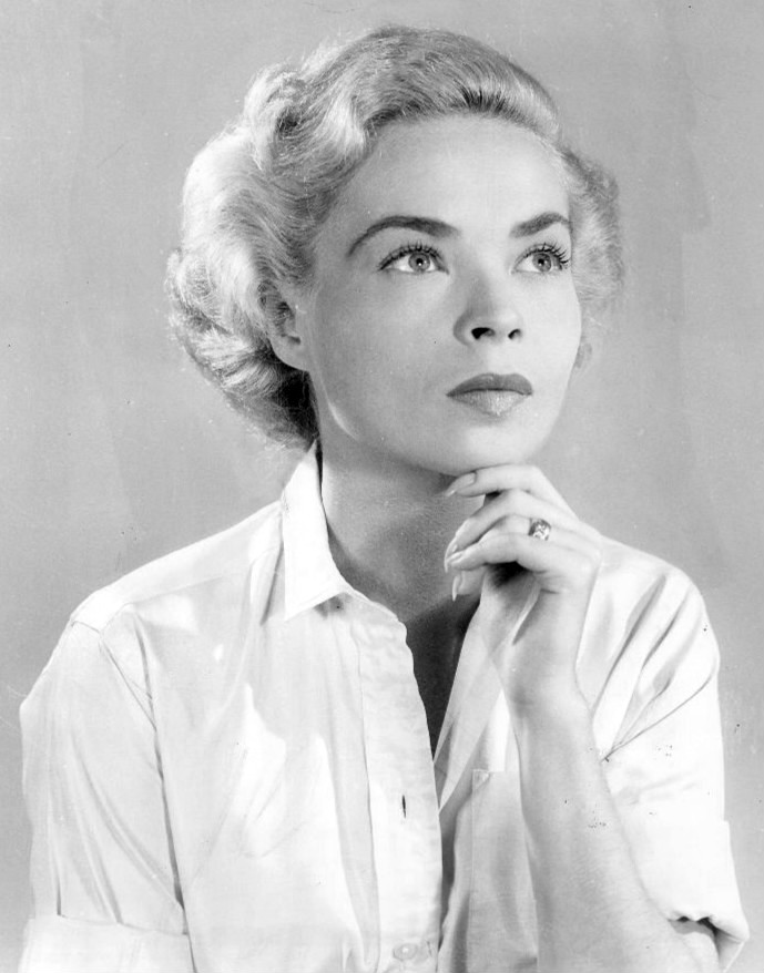 Publicity photo of Buff Cobb, who was a panelist on the game show Masquerade Party.